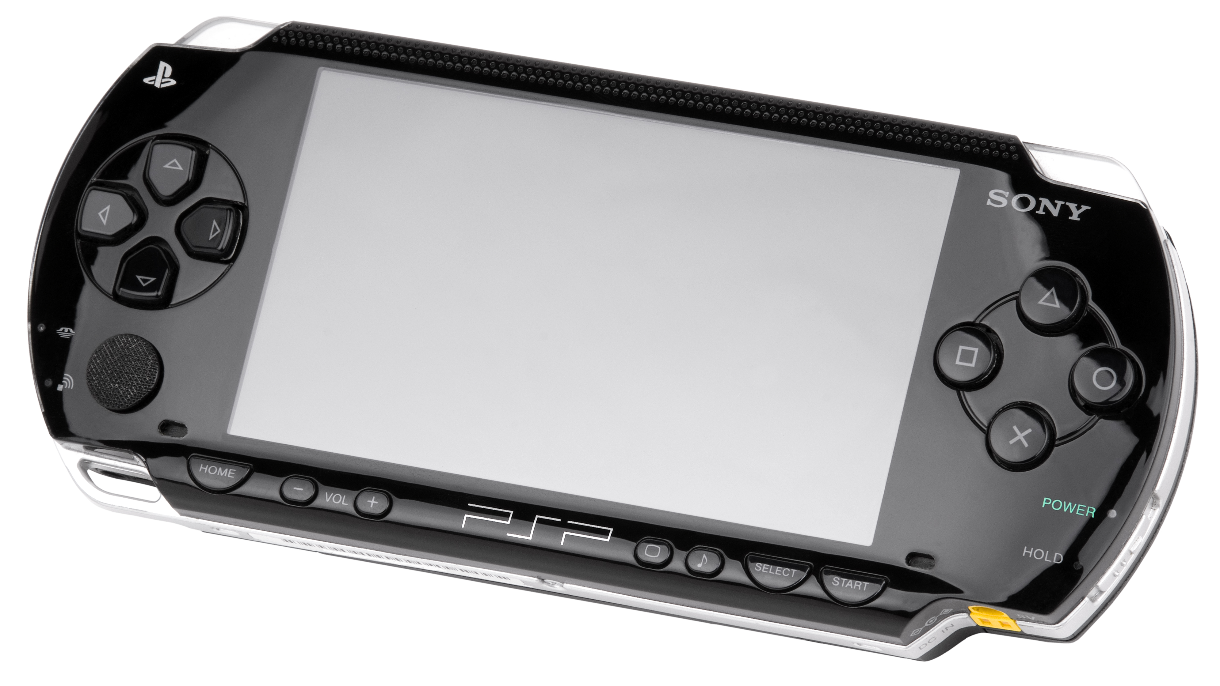 A North American Sony PSP-1000 handheld video game console.